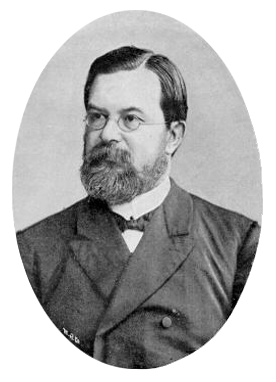 Rudolf Kaltenbach (1842–1892), German gynaecologist